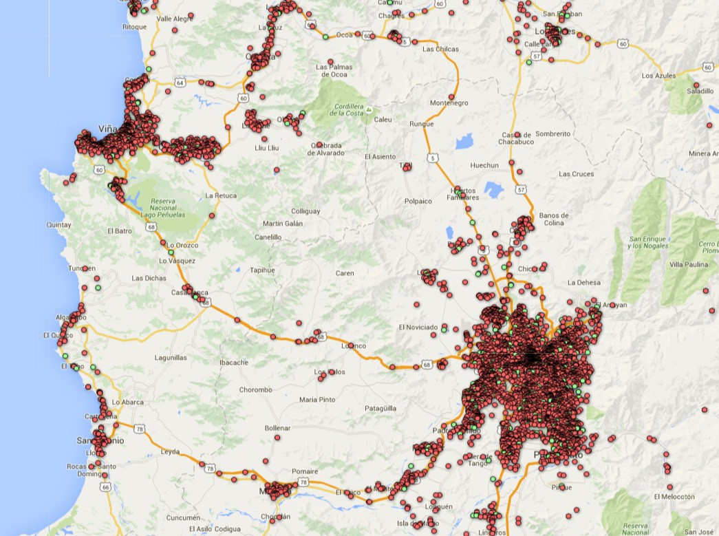 Smartphone network in Santiago area on December 5, 2015.